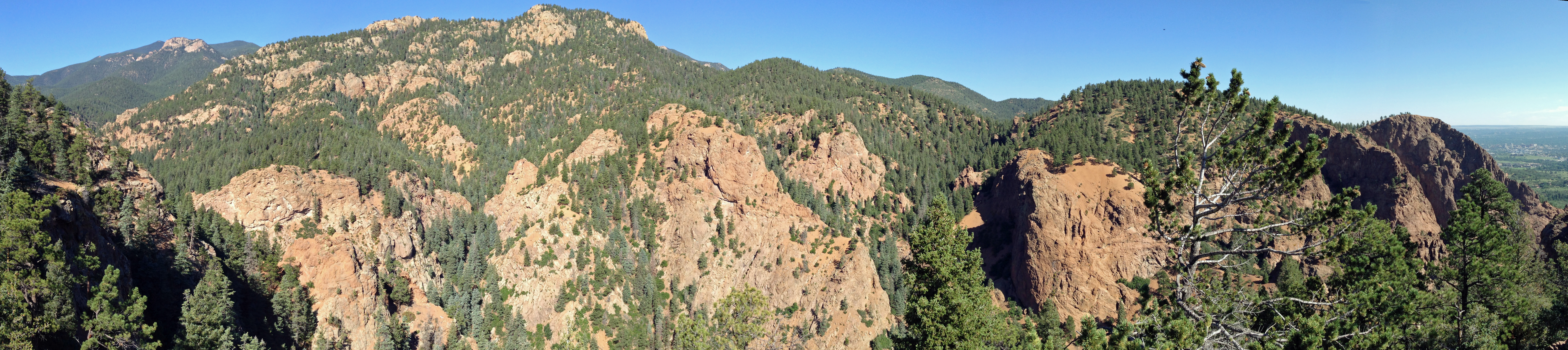 The view from Inspiration Point near Seven Falls in Colorado Springs, Colorado.